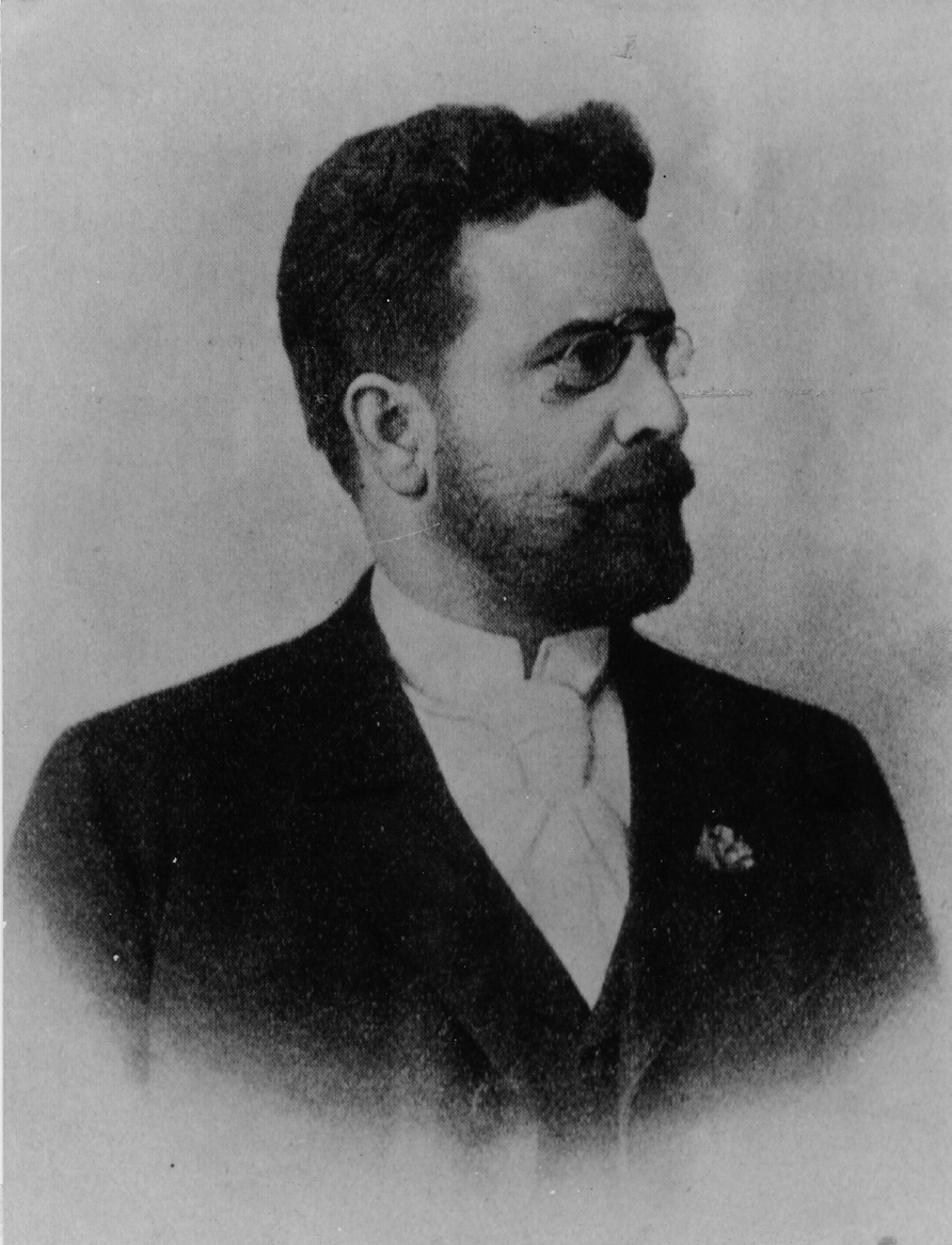 Portrait of Josip Vancaš from 1900.